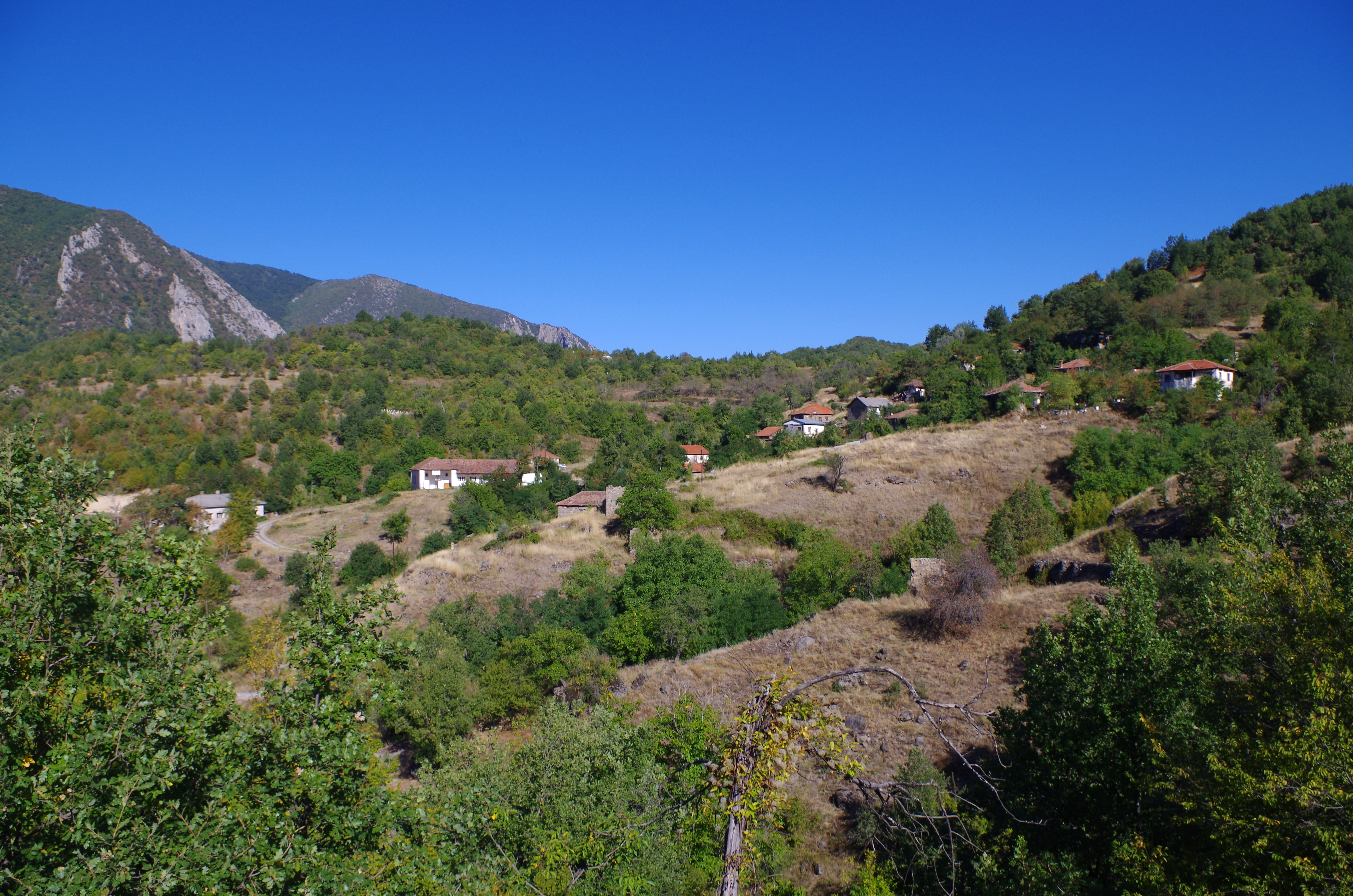 VIew of the village of Mrežičko